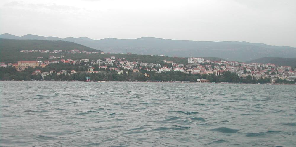 Crikvenica, Croatia: photo was made from the pedal boat